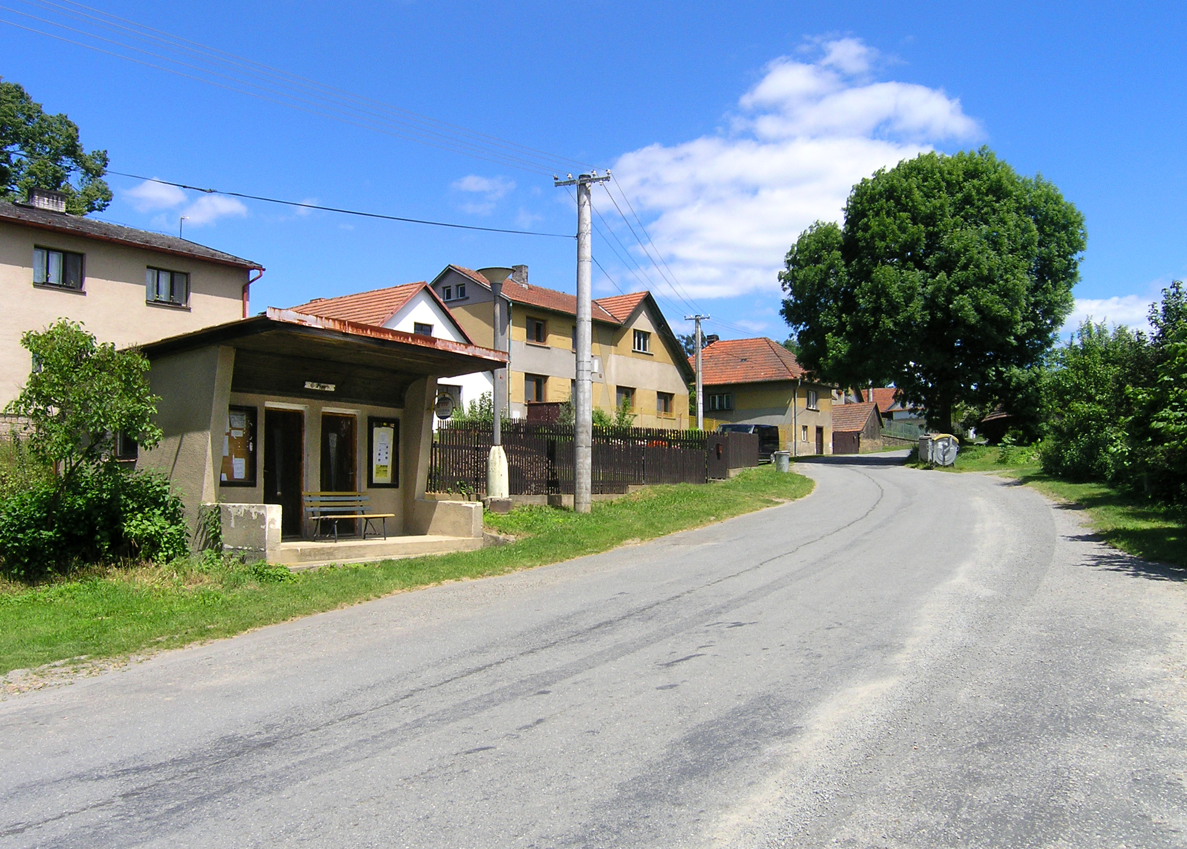 Těškovice, part of Onšov village, Czech Republic